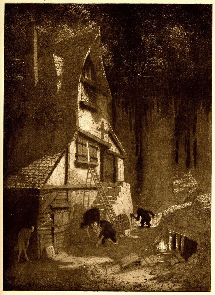 The Lean, High House Of The Gnoles by Sidney Sime.